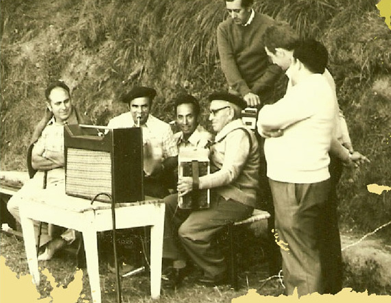 Landakanda